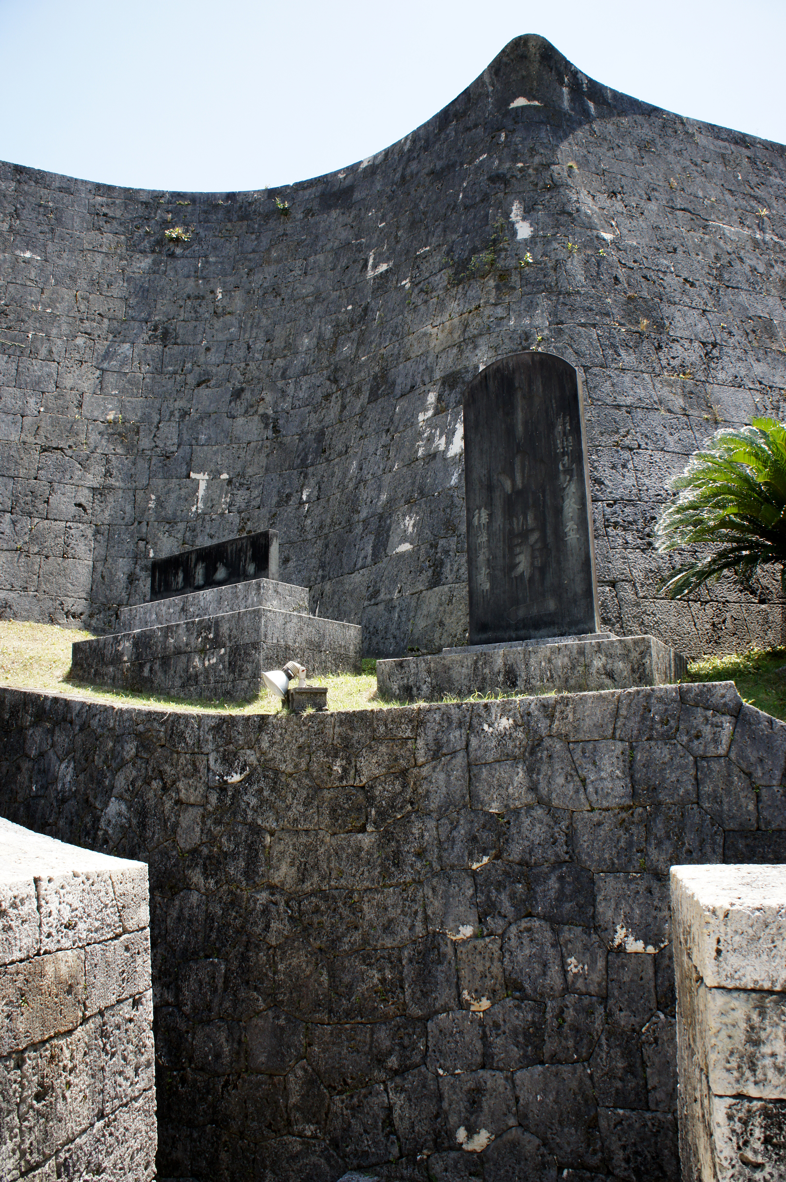 at Shuri Castle in Naha, Okinawa prefecture, Japan